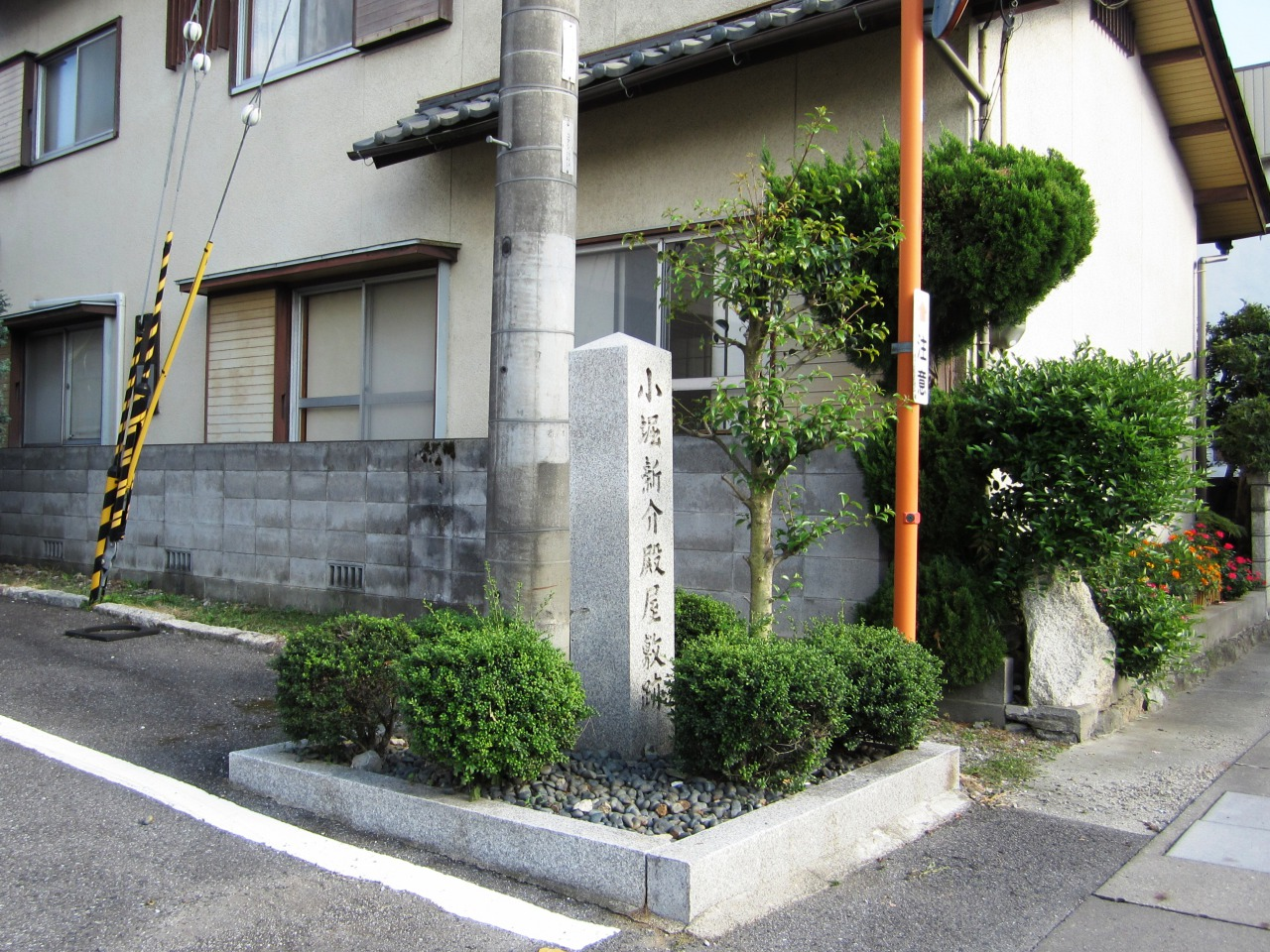 The site of Kobori Shinsuke's residence in Nagahama, Shiga.